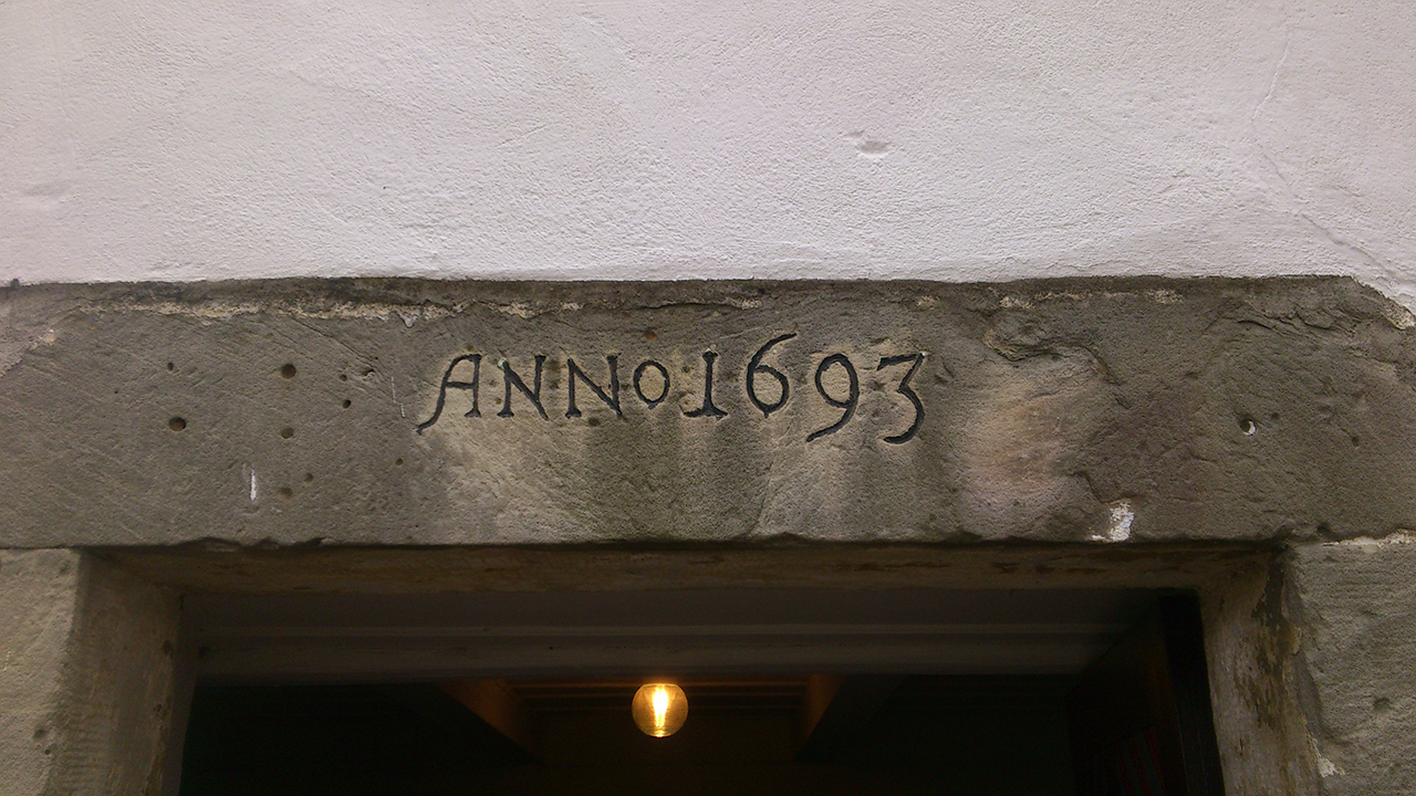 Year 1693 on the lintel.